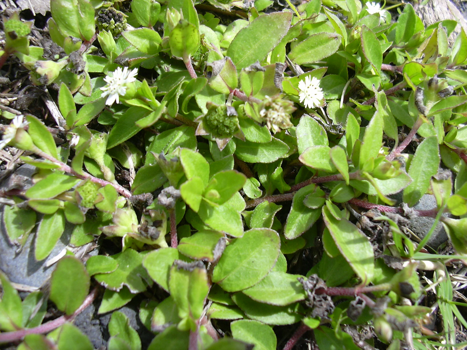 Eclipta prostrata (habit). Location: Maui, Hana Hwy